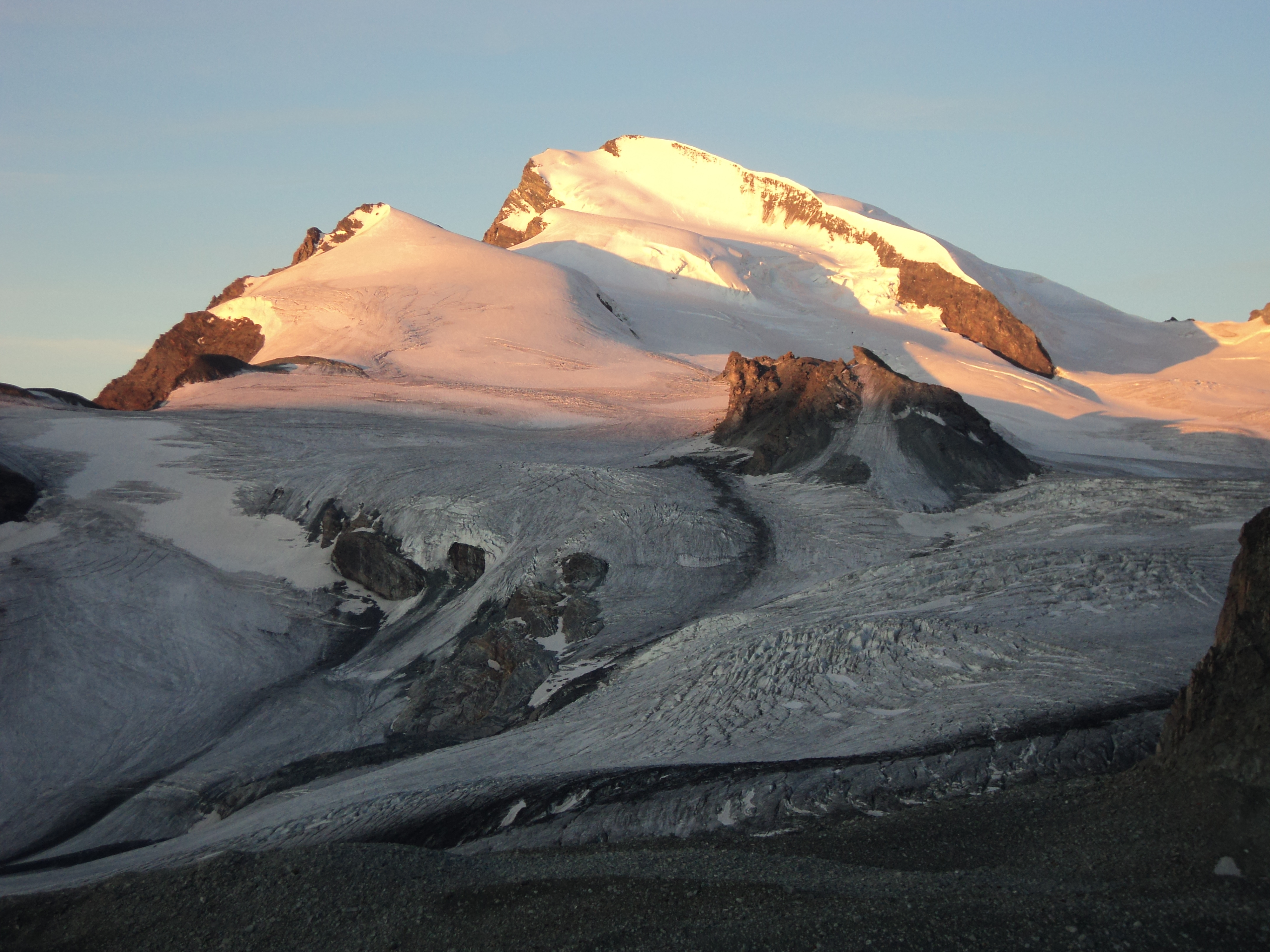 Strahlhorn from Britanniahütte